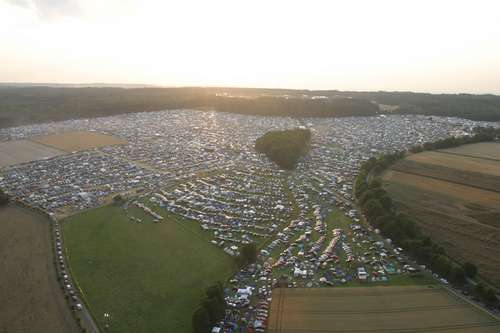 Nature One 2004 1camping grounds aerial shot. (In the background, behind the small forest, one can catch a glimpse of the "pydna" base used for the actual festival)